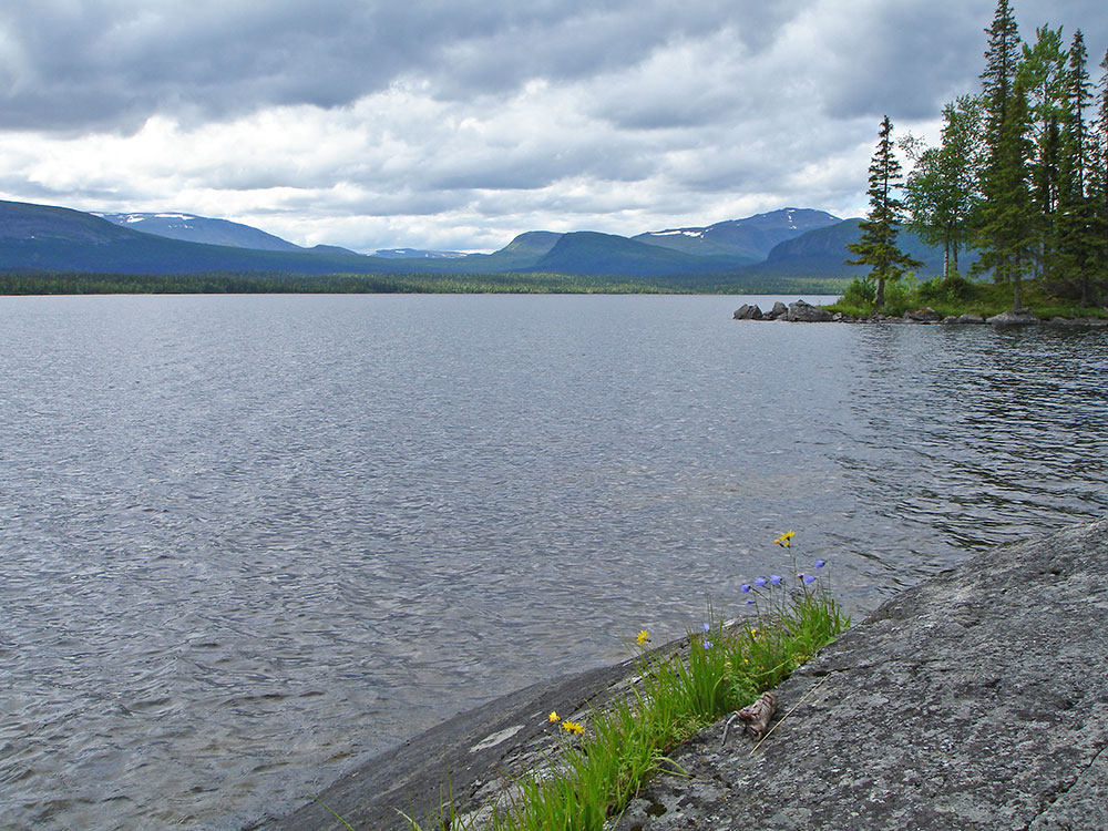 Lake Bergsjön in Vojmån between the villages of Dikanäs and Kittelfjäll, Vilhelmina Municipality